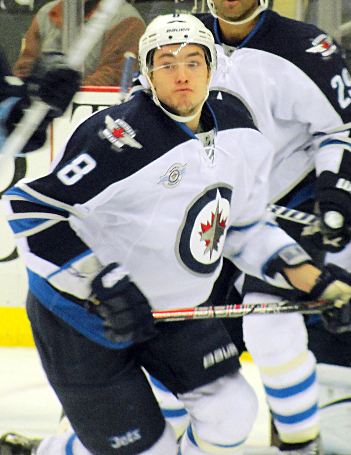 Alexander Burmistrov of the Winnepeg Jets during a game against the Pittsburgh Penguins, February 11, 2012 at Consol Energy Center in Pittsburgh, PA.